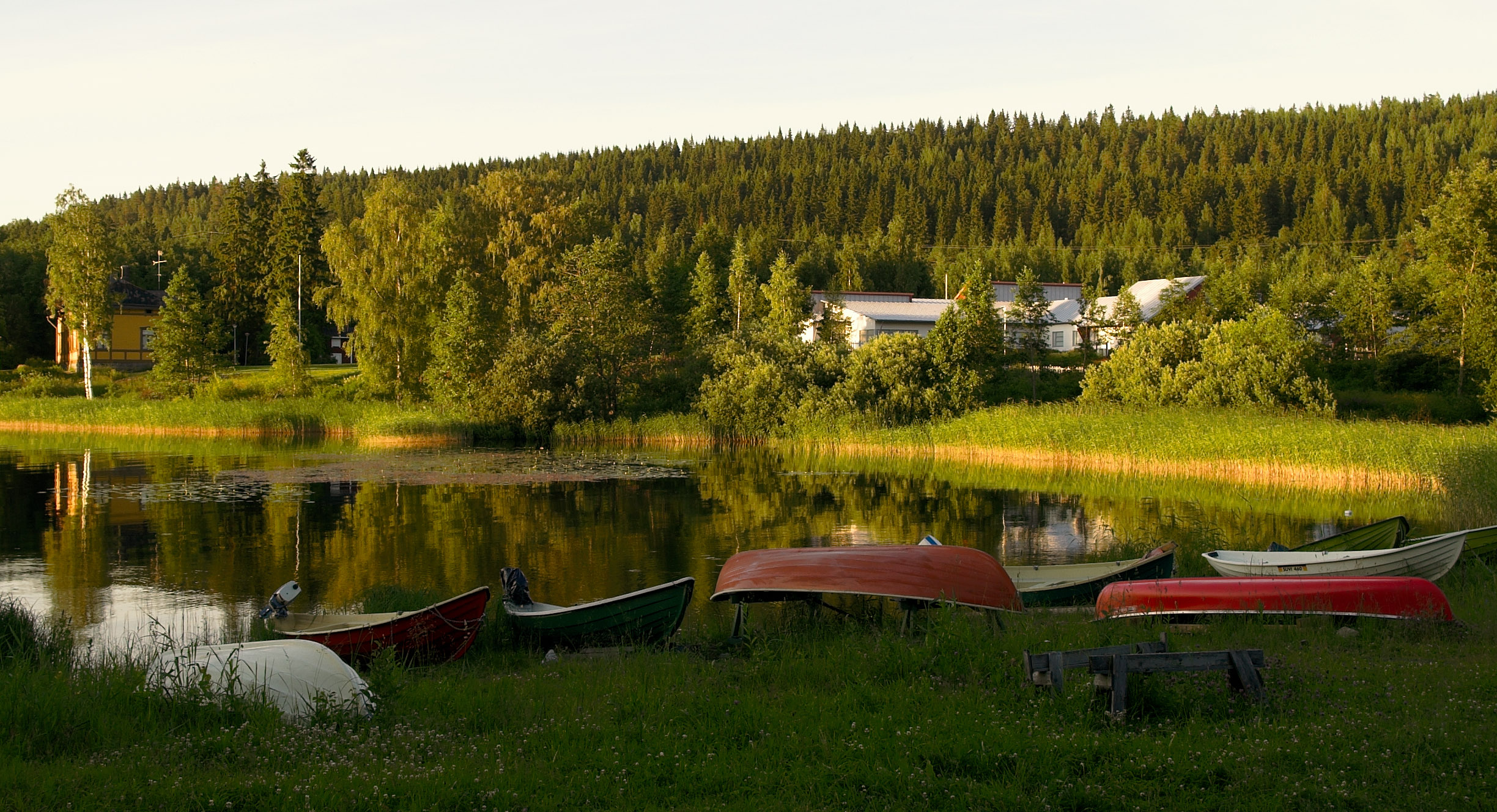 Paloaho school in Julkula, Kuopio, Finland. Classes 1–6.